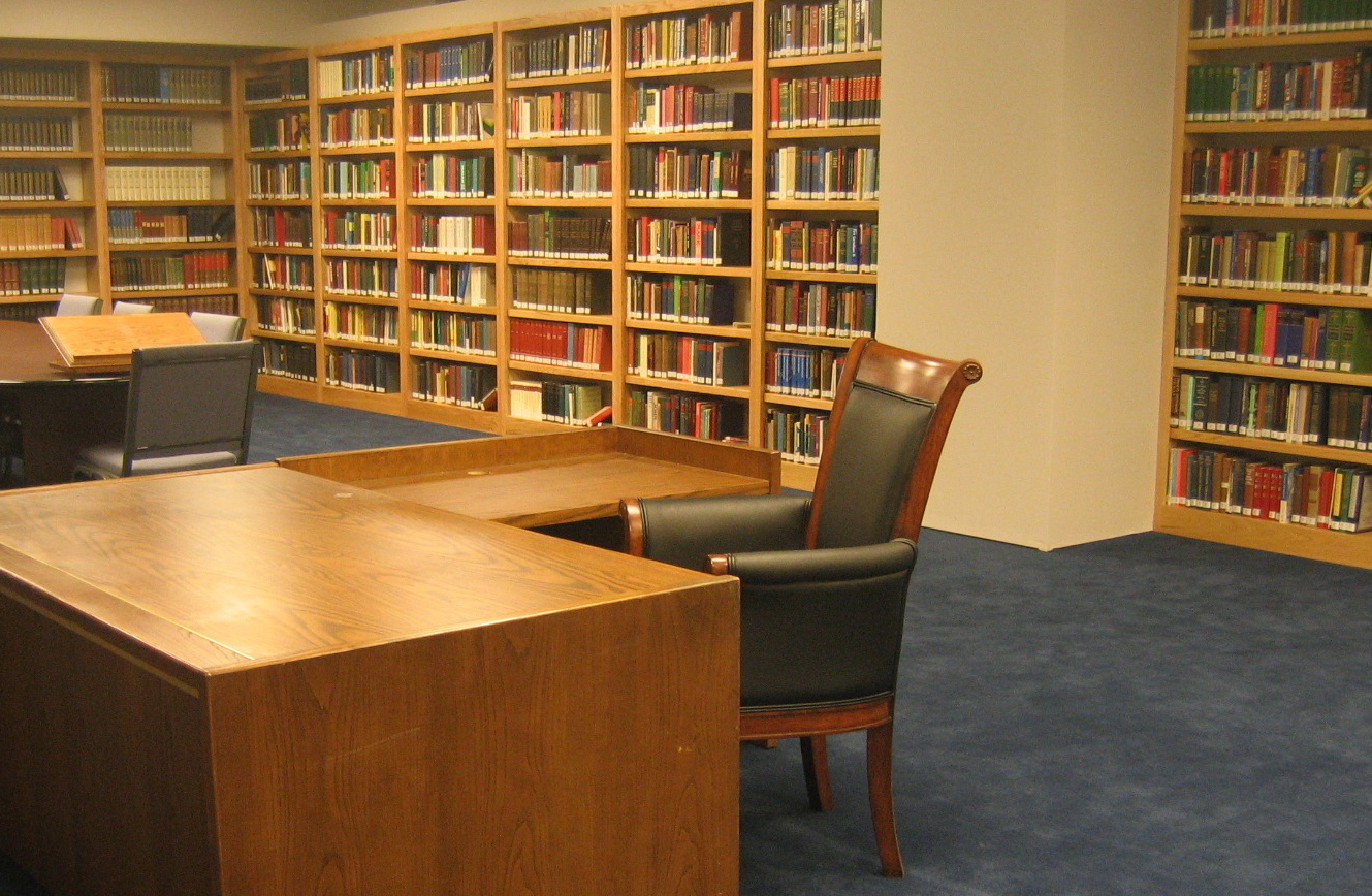 Library of Geneva Reformed Seminary, Greenville, South Carolina, USA